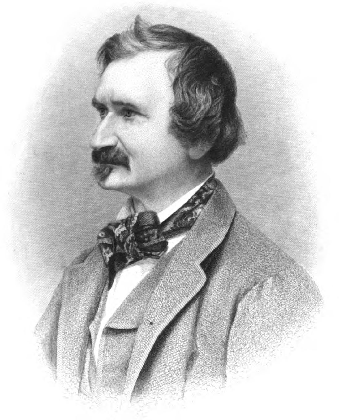 Bernhard von Cotta (1808–1879), was a German geologist.